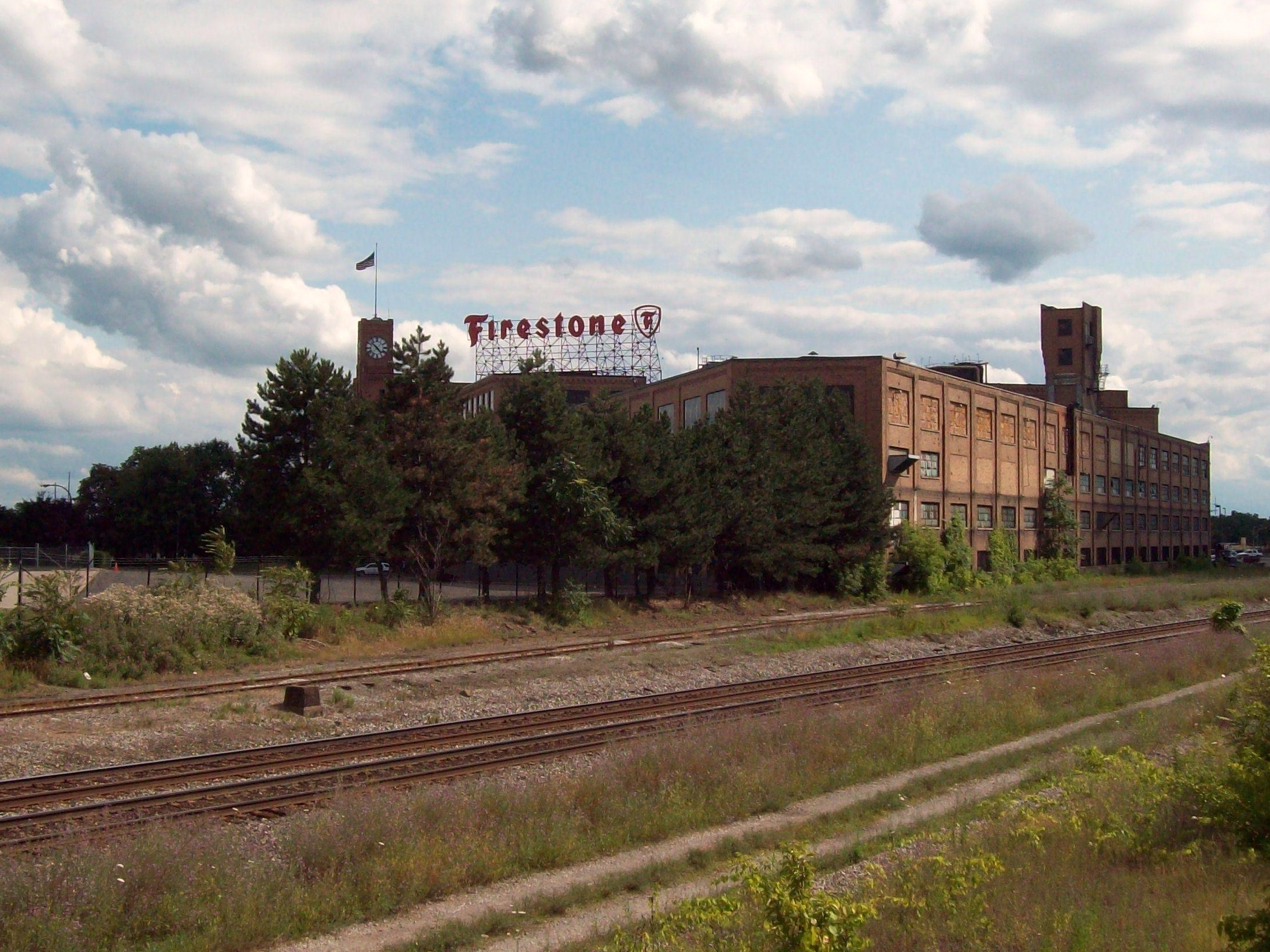 Former Firestone Tire plant in Akron, Ohio, United States.